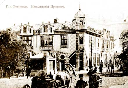 Stavropol, 1900